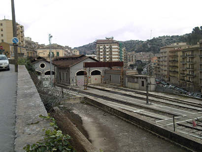 Locomotive/Railway depo in Modica.